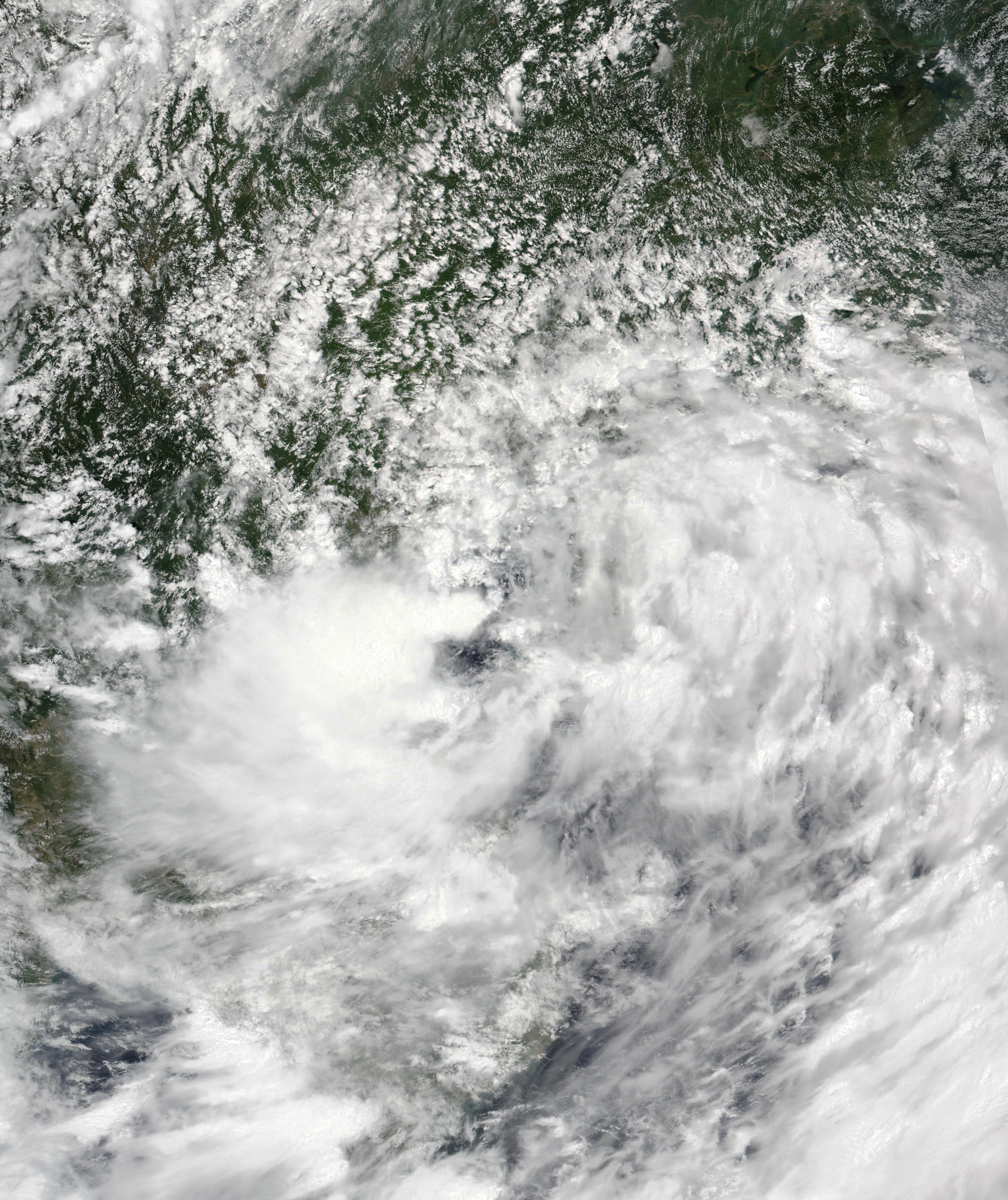 Tropical Storm Sinlaku on August 1, 2020